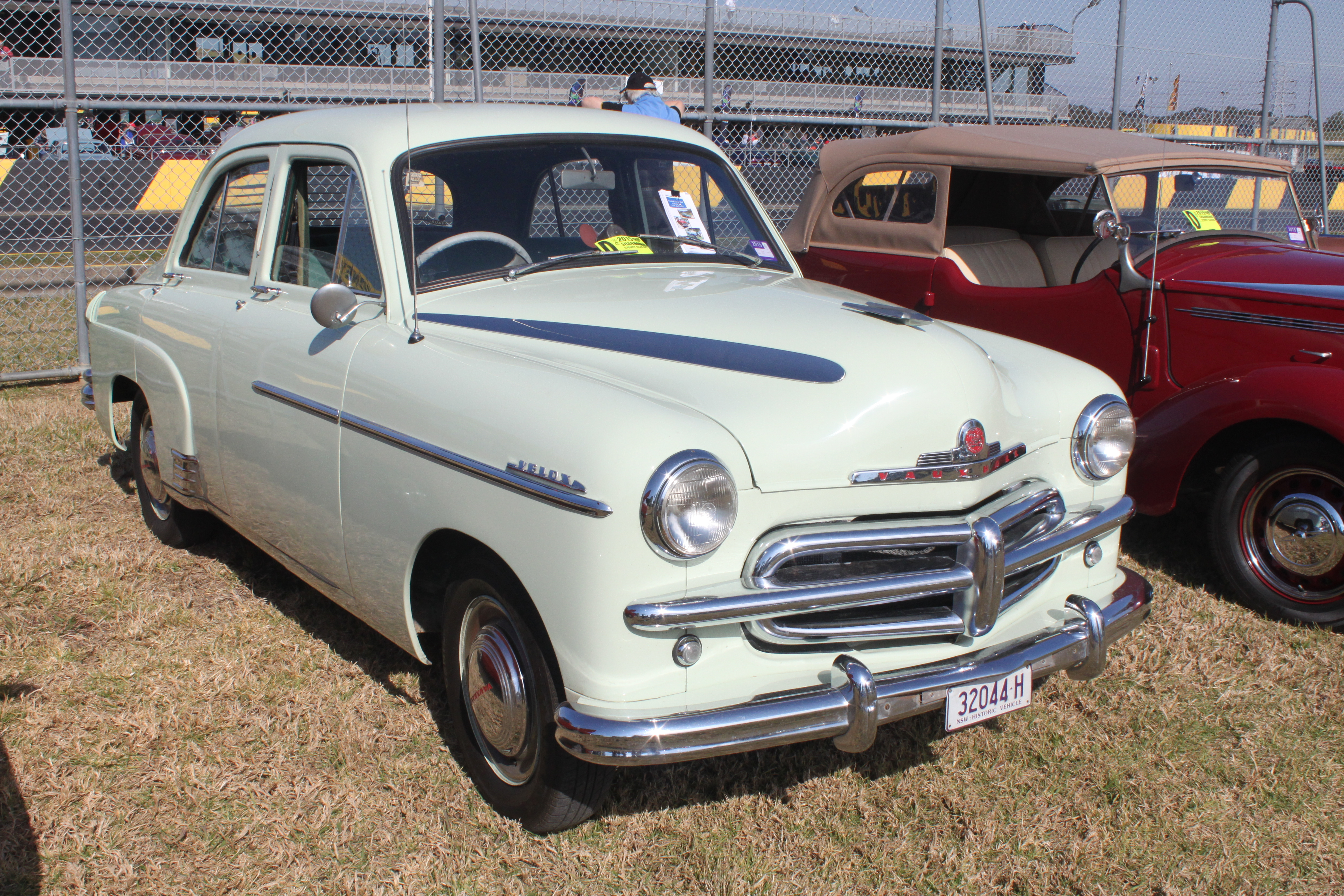 Shannon's Classic, Eastern Creek, NSW August 2015